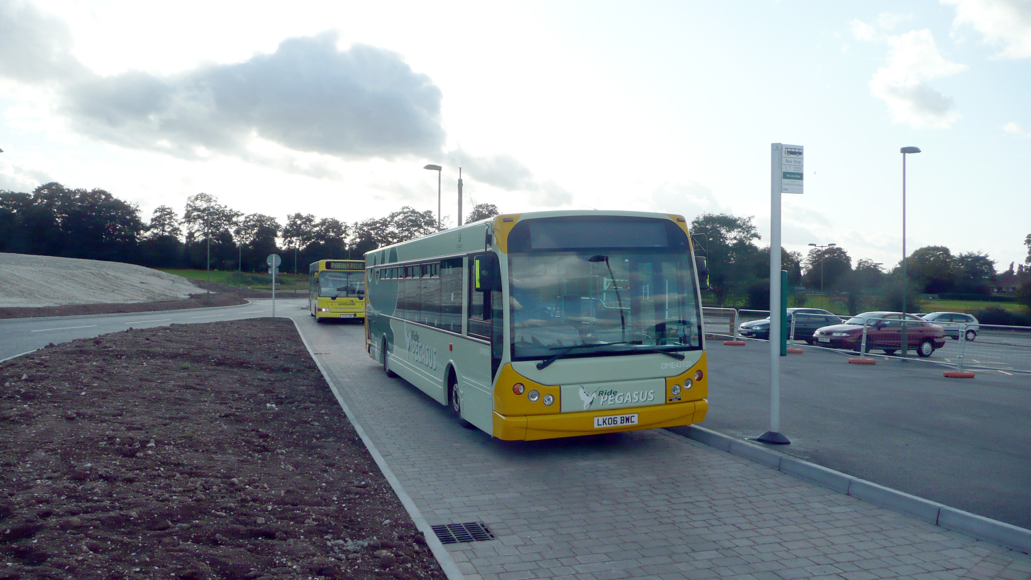 Two First Berkshire & The Thames Valley buses at the (at the time) recently opened park and ride site at Merrow in Guildford for service 300.